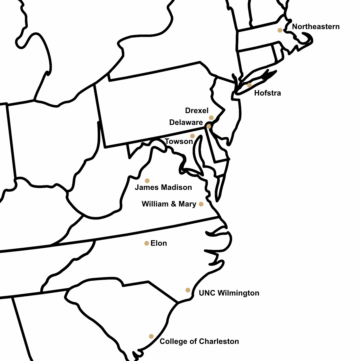 This is a map of CAA full member institutions, as of 2014.